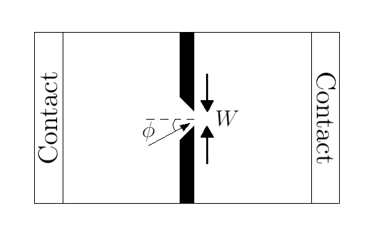 Balistic Transport